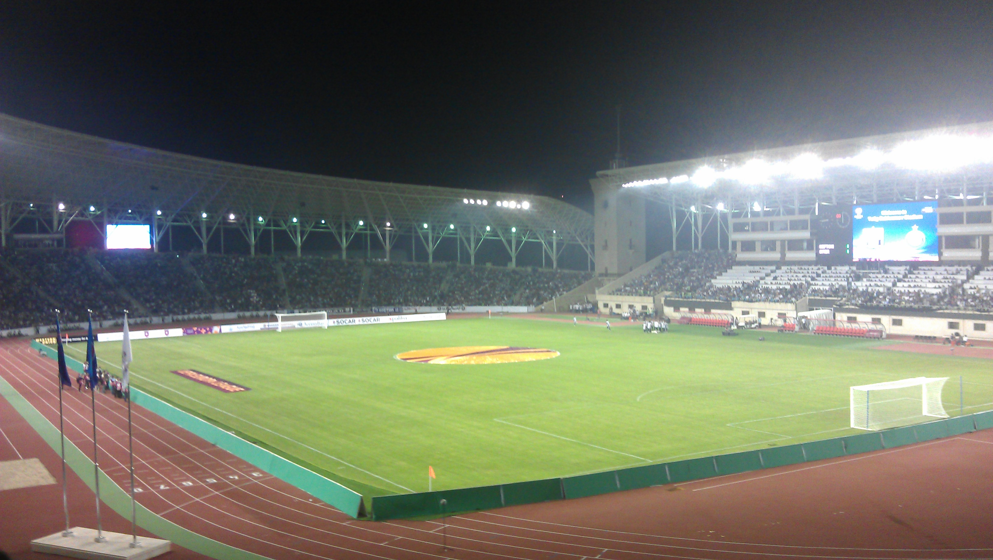 UEFA Europa League 2012-2013. Neftchi Baku-FC Internazionale Milano match. Tofiq Bahramov Stadium, Baku, Azerbaijan.